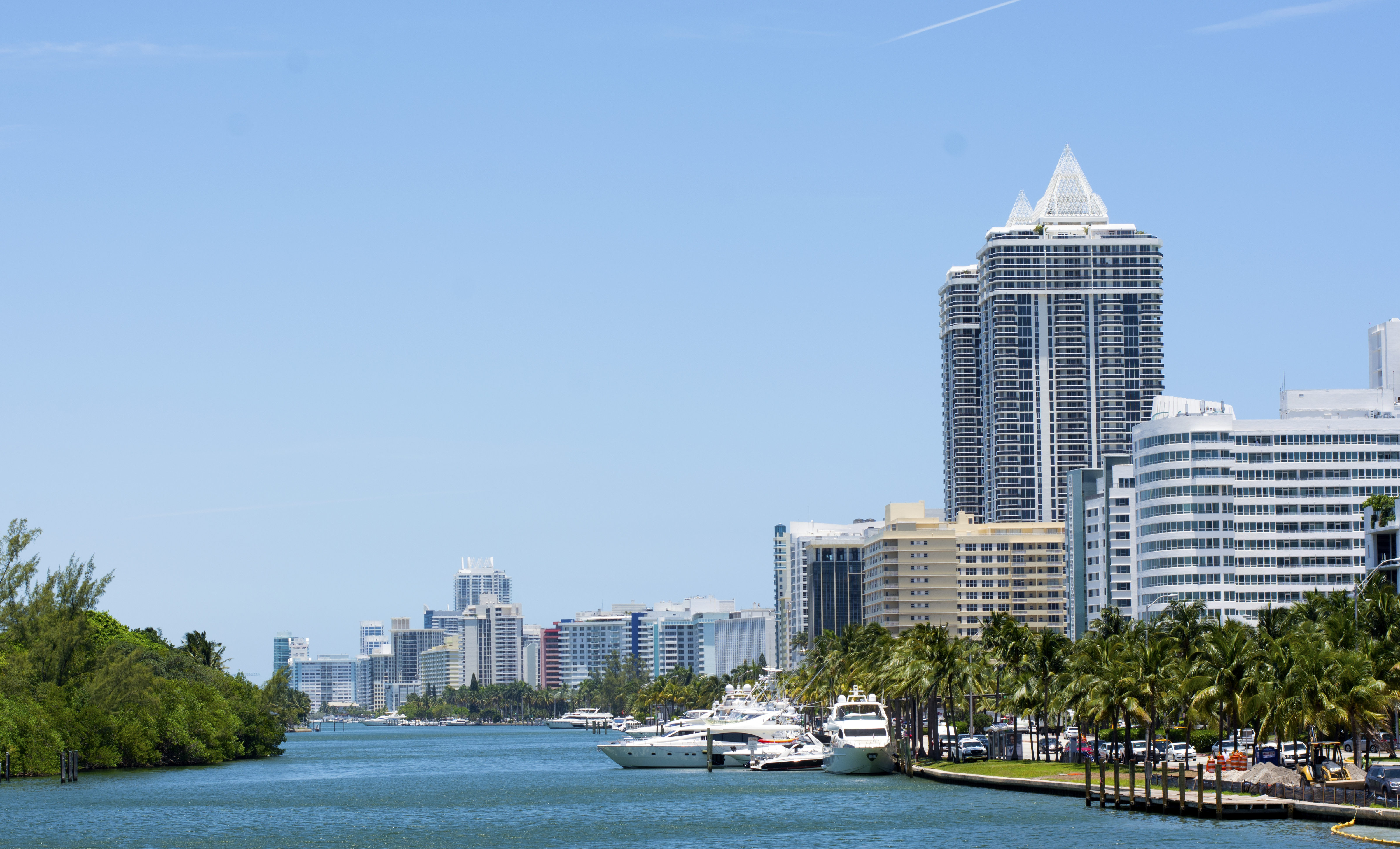 Miami North Beach Waterway by D Ramey Logan.jpg